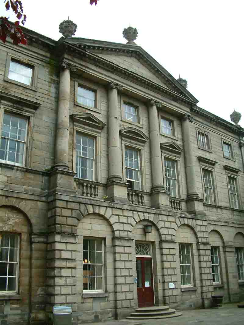 St. Helen's House taken weeks prior to the building's closure